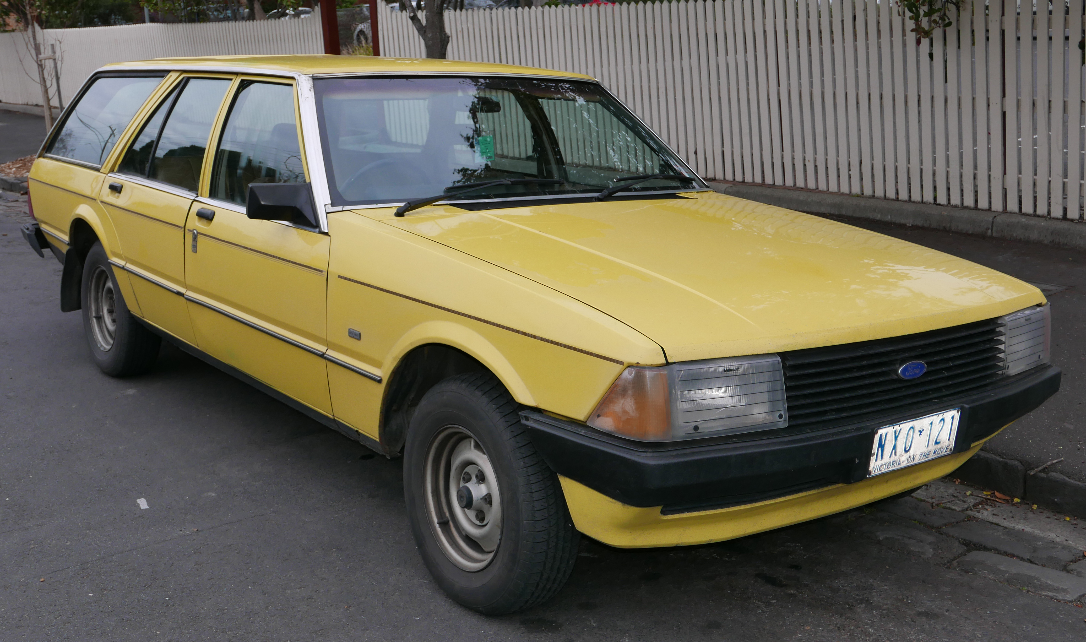 1981 Ford Falcon (XD) GL station wagon. Photographed in Toorak, Victoria, Australia. This vehicle is still on the road as of 19 July 2018. Vehicle registration enquiry results Jurisdiction Victoria Registration NXO121 Chassis code JG31YE29070C Engine code AL2JYB80502C Compliance date 1981-12 Year of manufacture 1982 (not a typo)